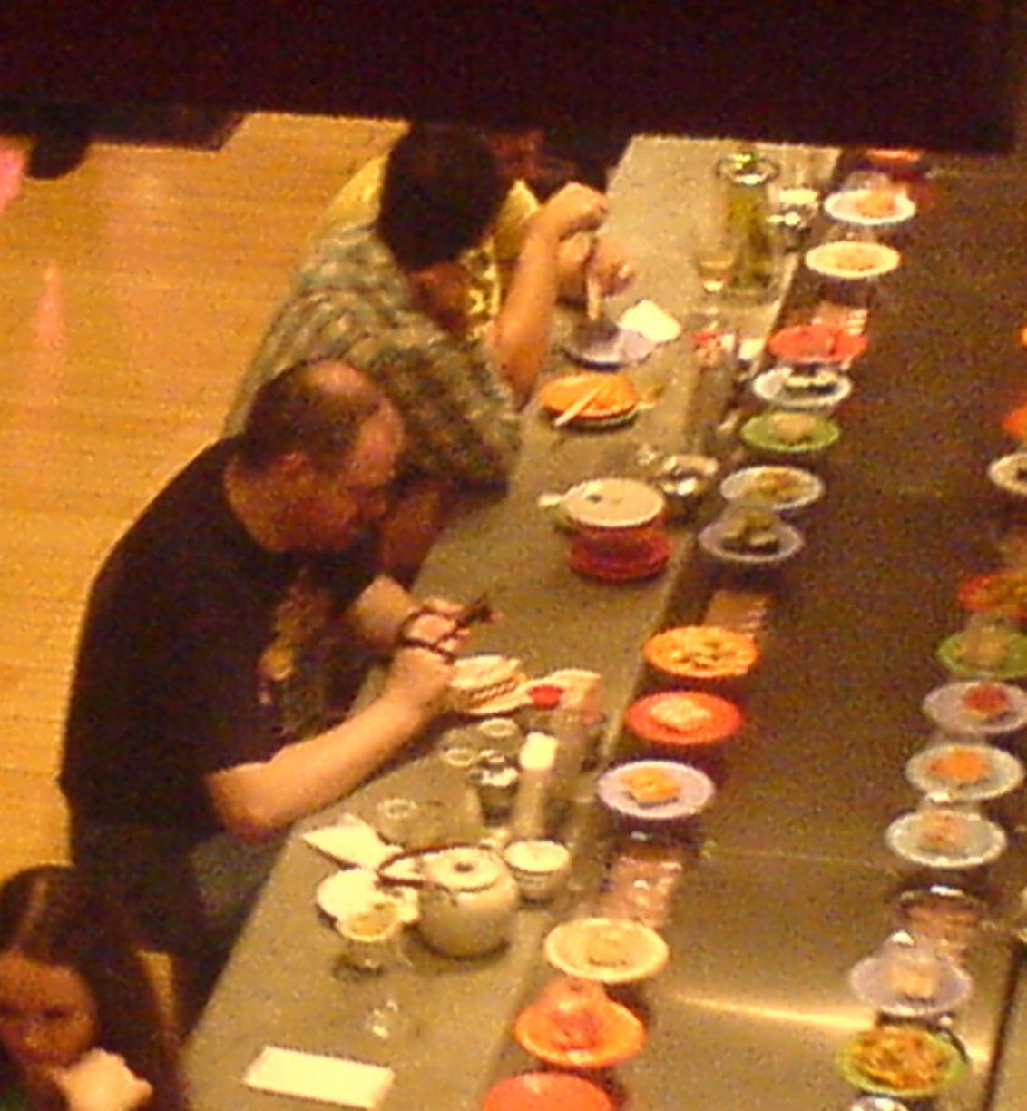 Too busy texting to notice all the delicious treats gently strolling by...I took this picture of my husband from the first floor. We enjoyed the all-you-can-eat-for-￡10 sushi very much.Who is that crazy man at Shogun?